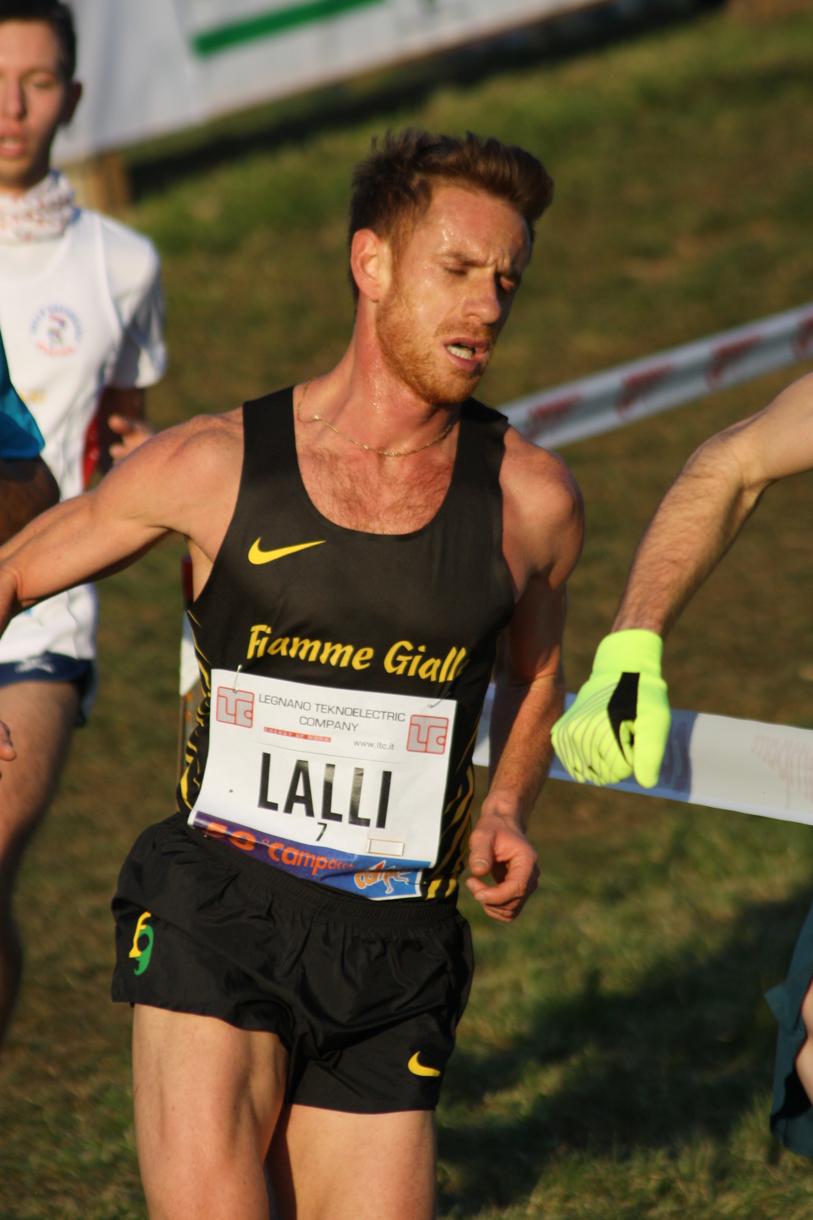 The Italian athlete Andrea Lalli during the 58th edition on the Campaccio.